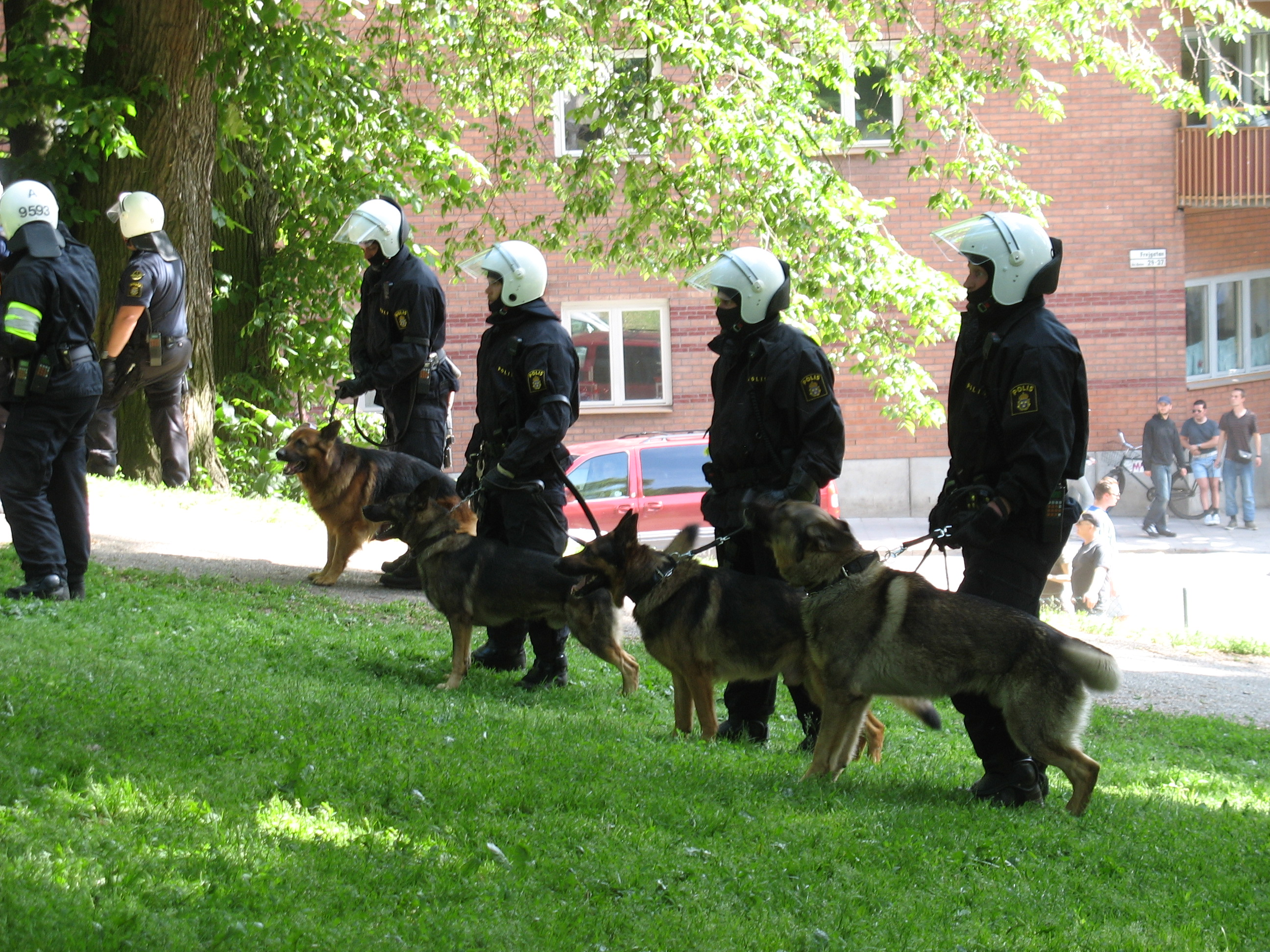 Swedish police dogs in action during nationalist demonstrations on National Day, 2007.